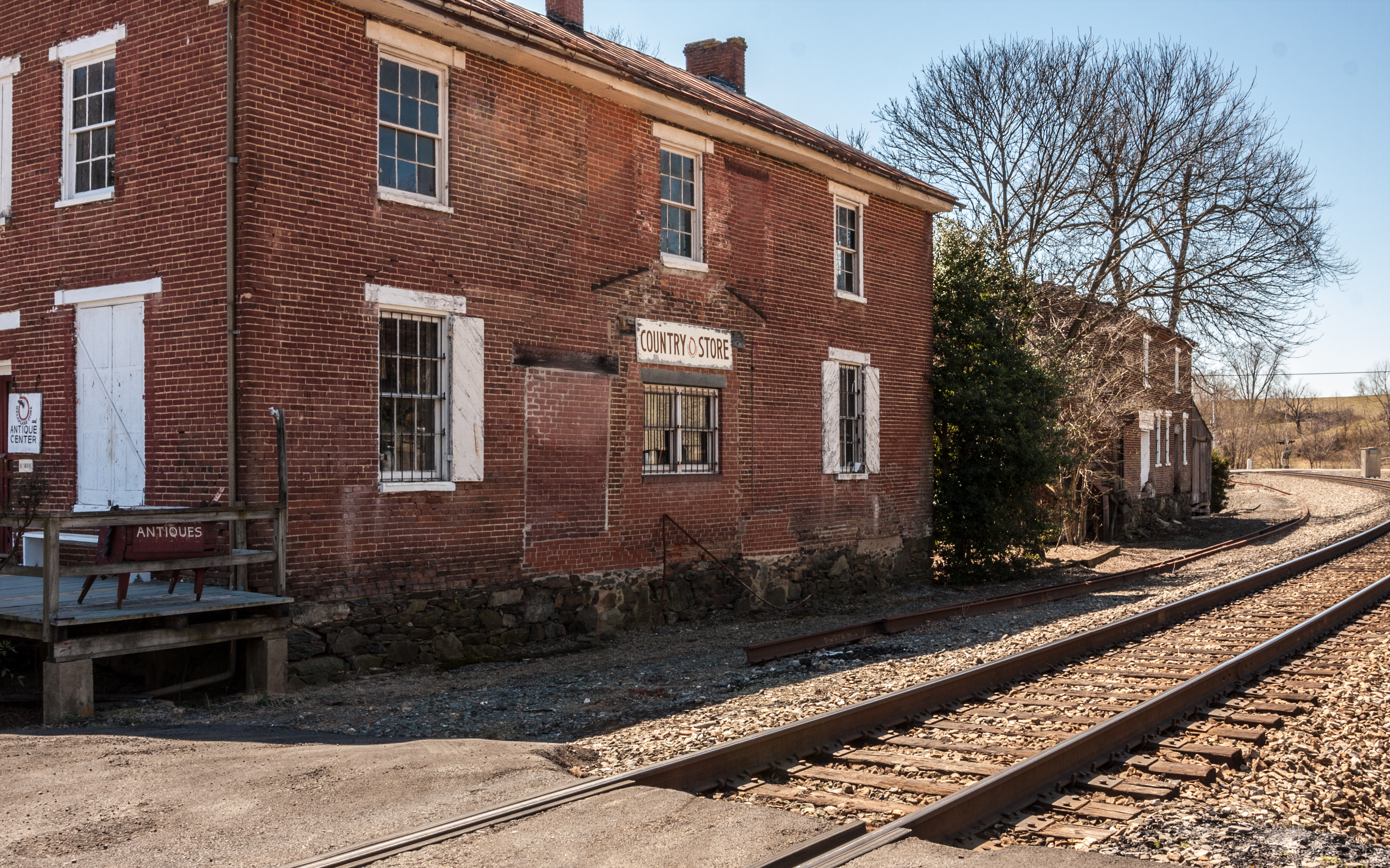 Delaplane Country Store, facing VA 623